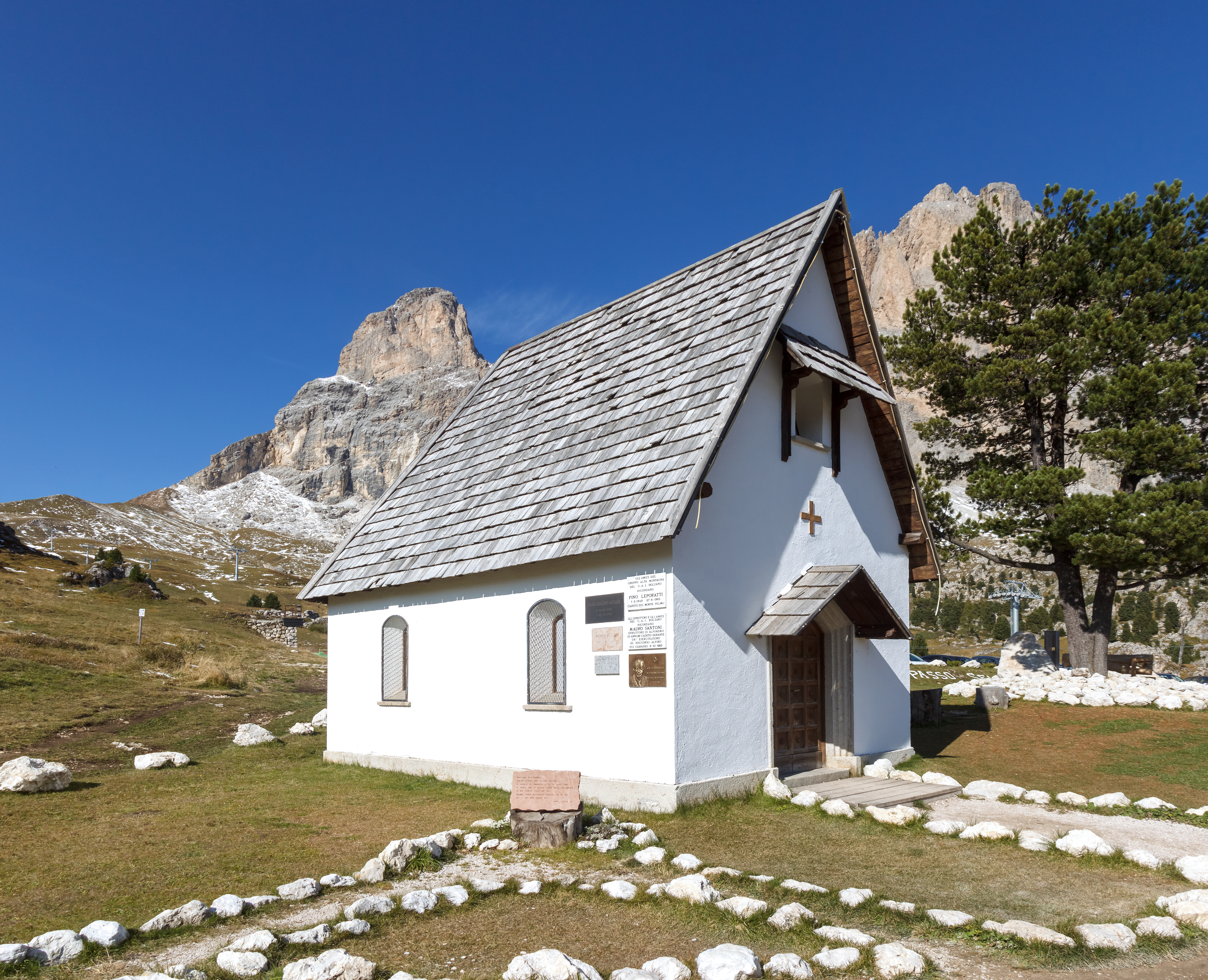 Chiesetta del Passo Sella (Sella Pass-Chapel), Sella Pass, South Tyrol, Italy.